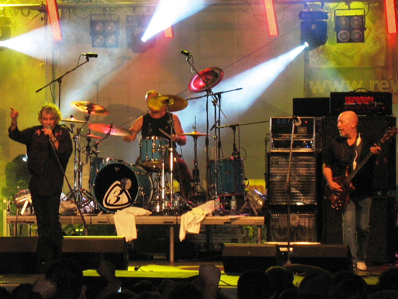 Nazareth in Rzeszów 2009-09-03